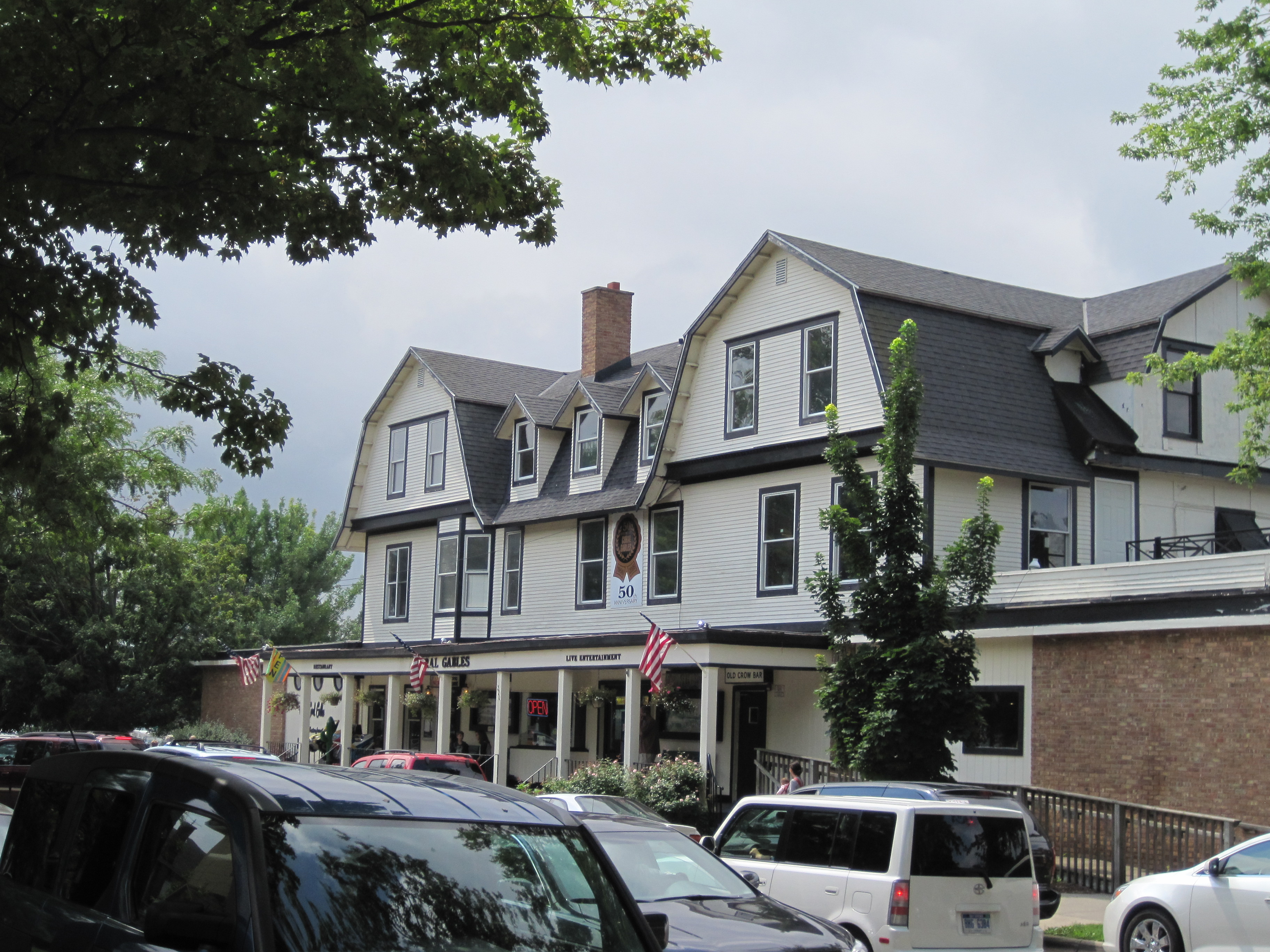 I (Teemu08 (talk)) took this image on August 14, 2011